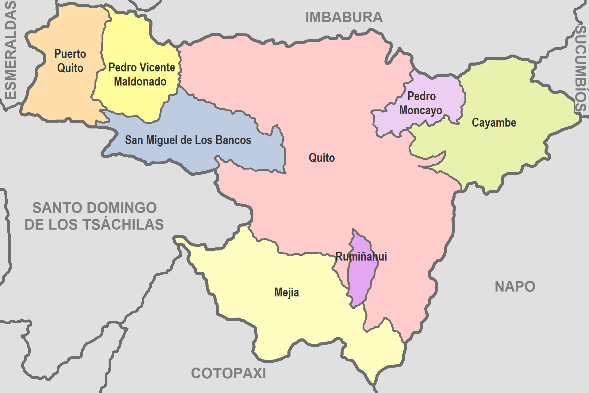 Map of Pichincha